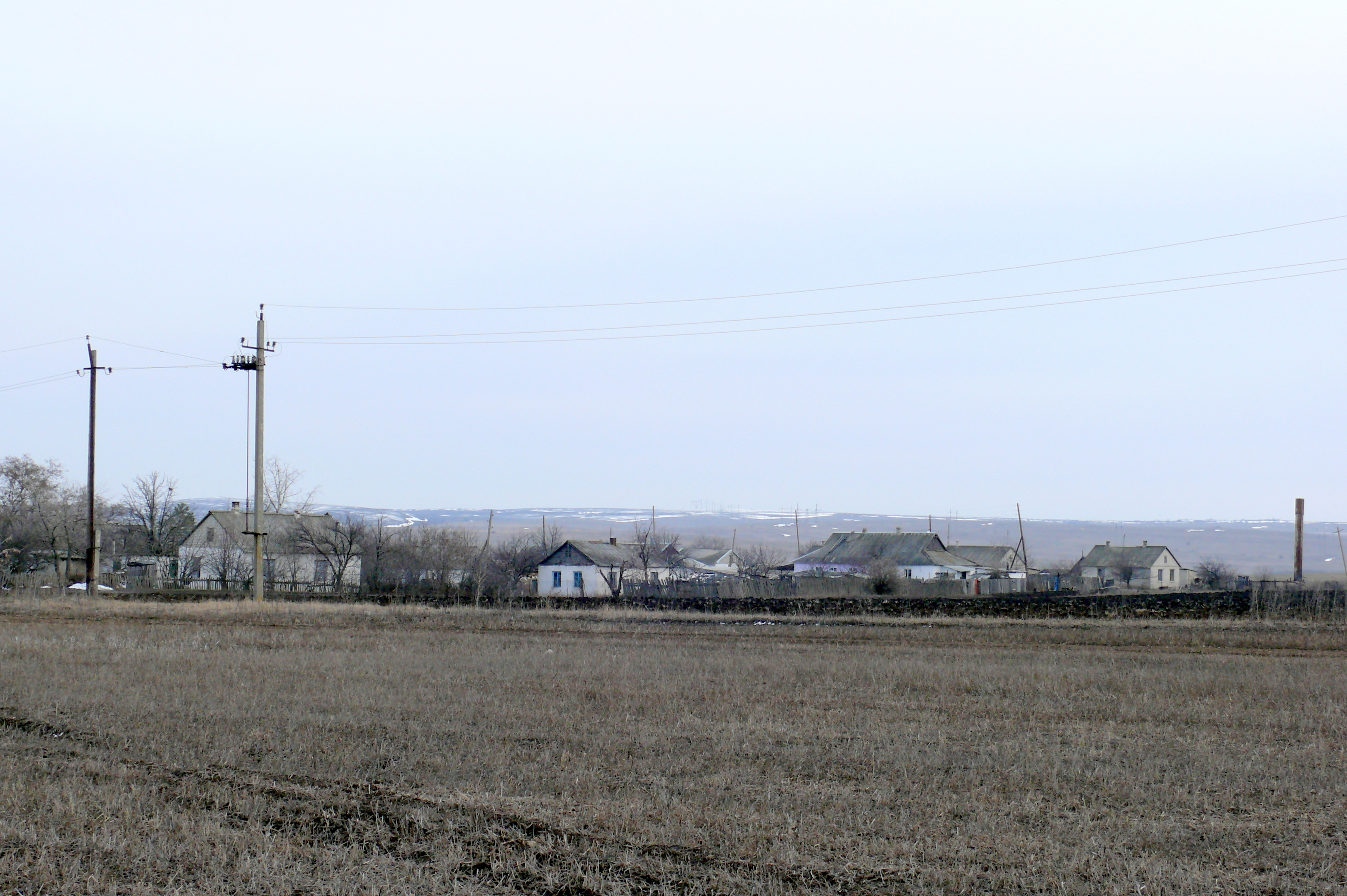 Cheremshyne village, Sverdlovsk Raion